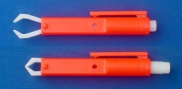 Instrument for tick removal